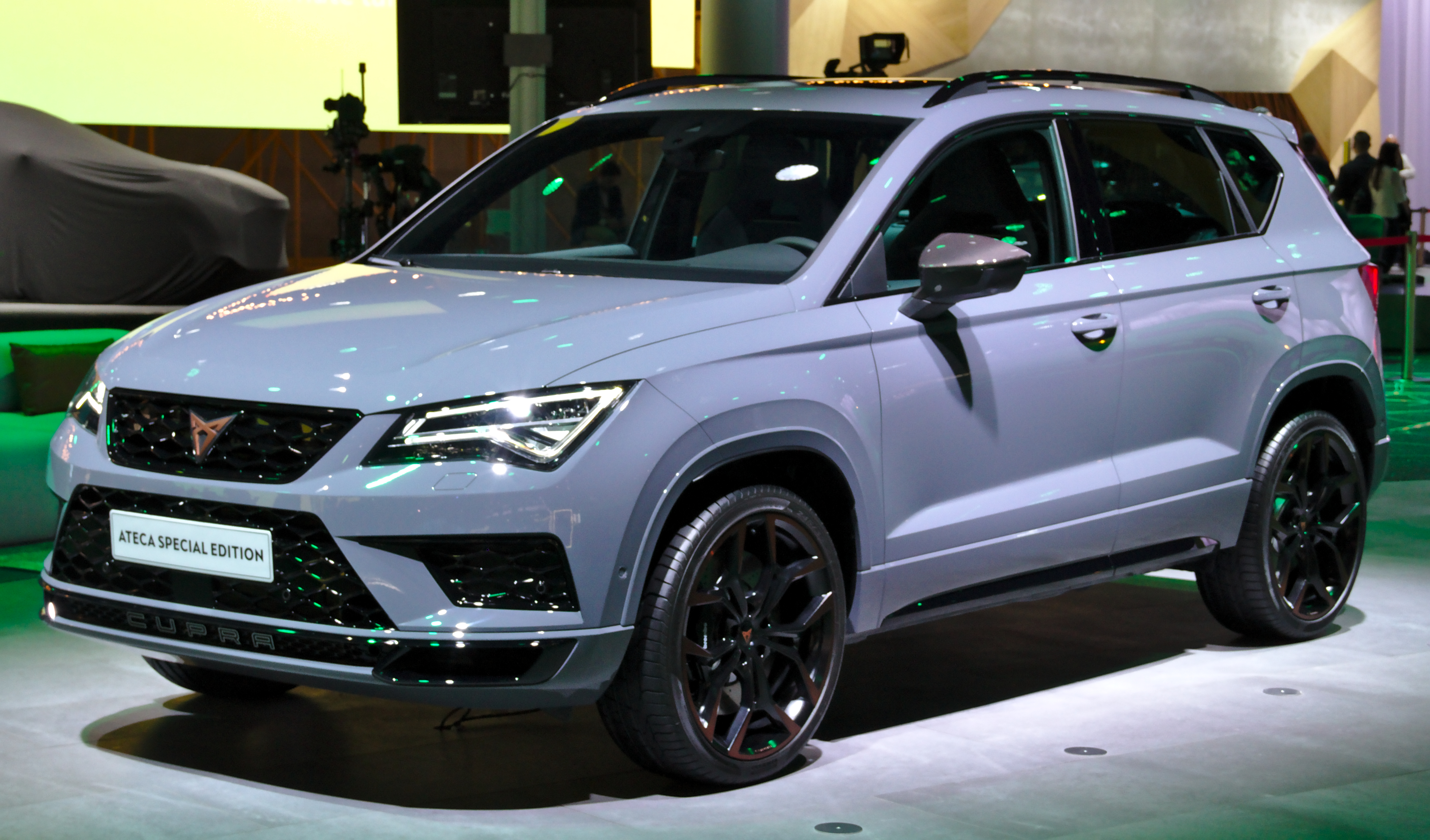 Cupra_Ateca at IAA 2019